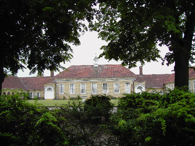 Sawston Village College. Henry Morris (1889-1961) was secretary of Education for Cambridgeshire from 1922-1954. He was instrumental in the creation of a new type of educational institution: the Village College. Sawston Village College, the first, was the first state school to have a separate hall; a well furnished adult wing, a library for school and community use, a medical services room, playing fields with changing facilities for students and other community members, plus a wardens house.